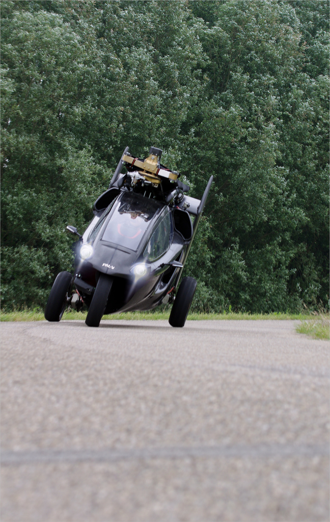 PAL-V ONE on the road